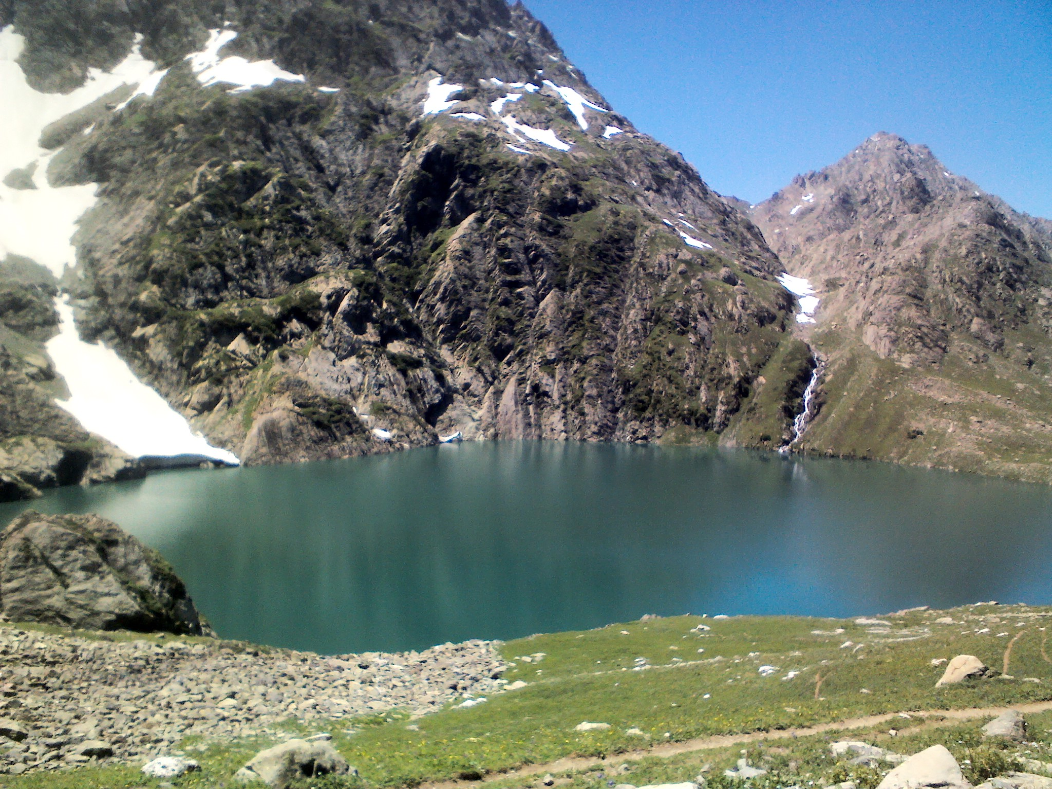 Gadsar Lake a high altitude alpine lake in kashmir Valley.